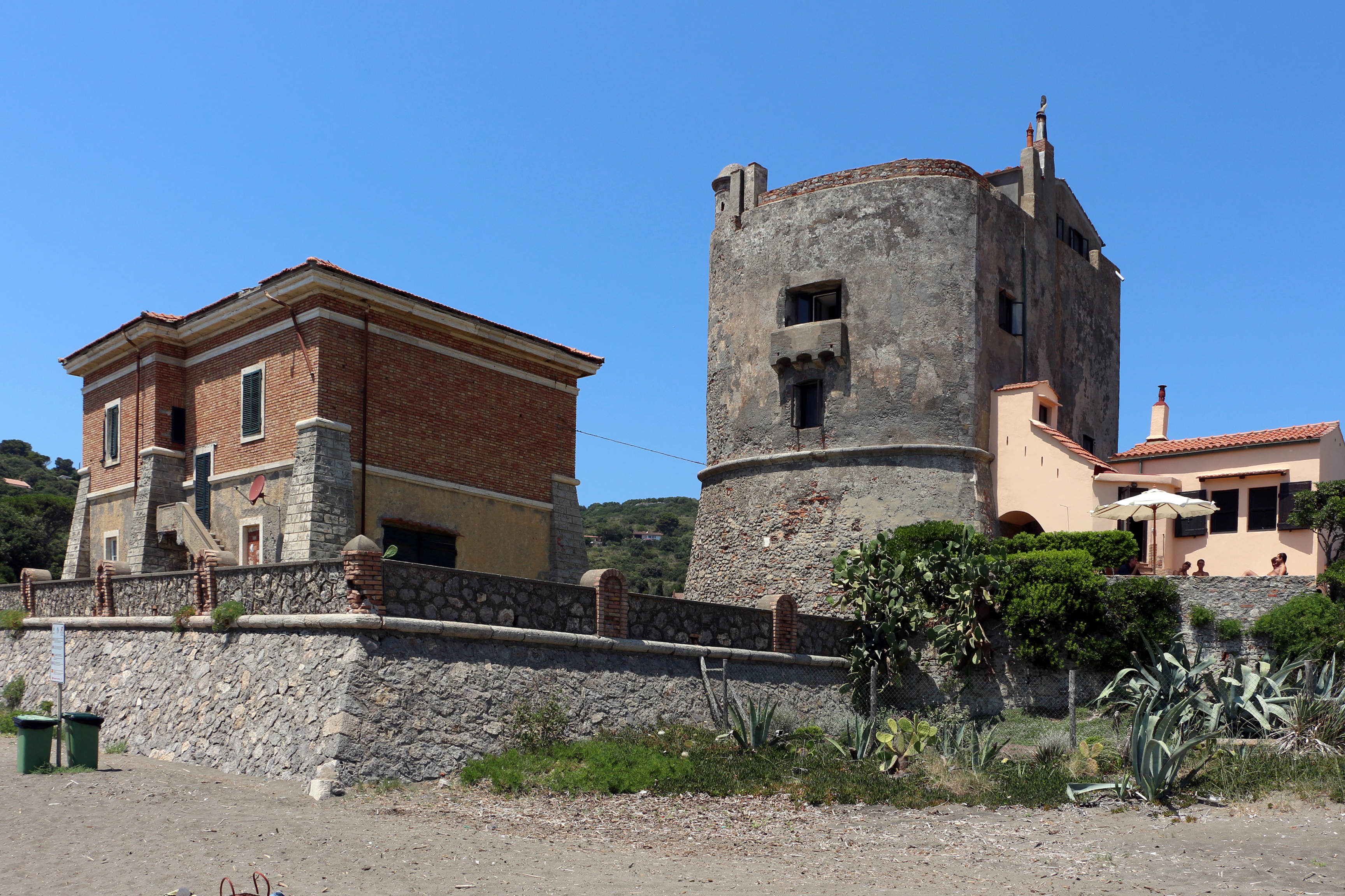 Ansedonia